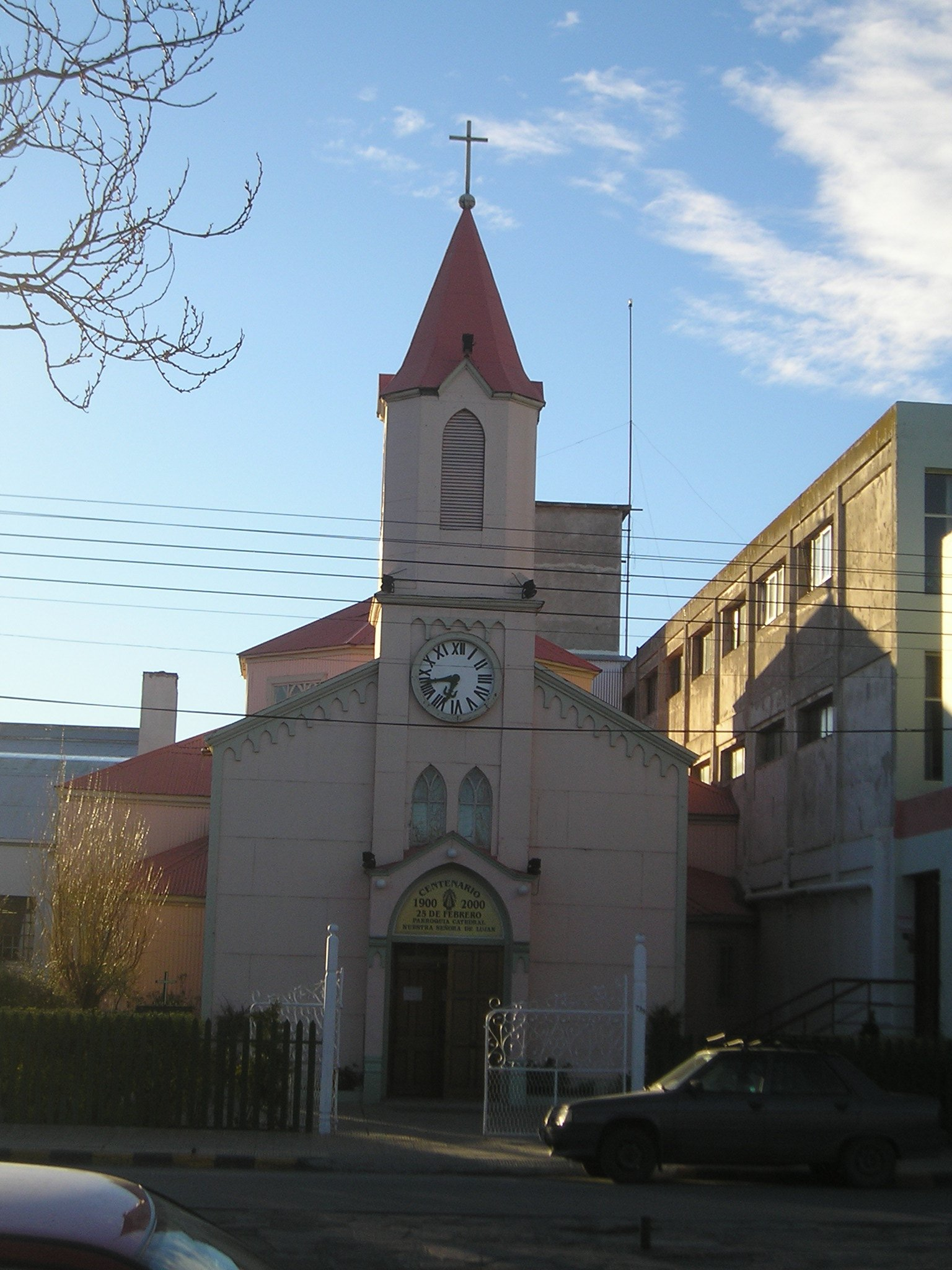 Río Gallegos, Argentina - cathedral Nuestra Señora de Iuján